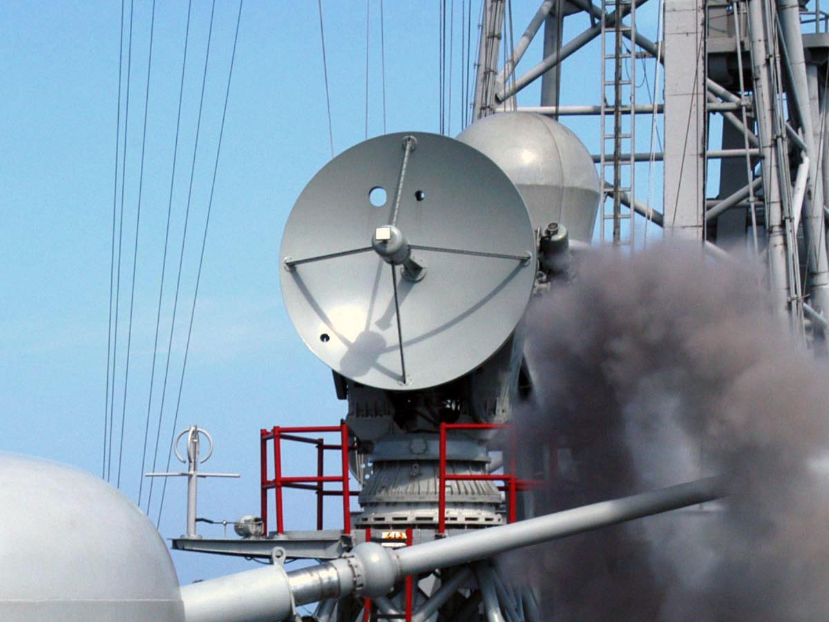 030718-N-4178C-002 At sea aboard USS Curts (FFG 38) Jul. 18, 2003 -- The 62 caliber three-inch gun aboard the guided missile frigate USS Curts (FFG 38) fires a projectile off the ship’s starboard side. Curts fired the rounds at a freighter towed by a Republic of Singapore Navy ship during the Singapore phase of exercise Cooperation Afloat Readiness and Training (CARAT). CARAT is a regularly scheduled series of bilateral military training exercises between the U.S. and several Association of Southeast Asian Nations (ASEAN). U.S. Navy photo by Journalist 1st Class Bruce Cummins. (RELEASED)